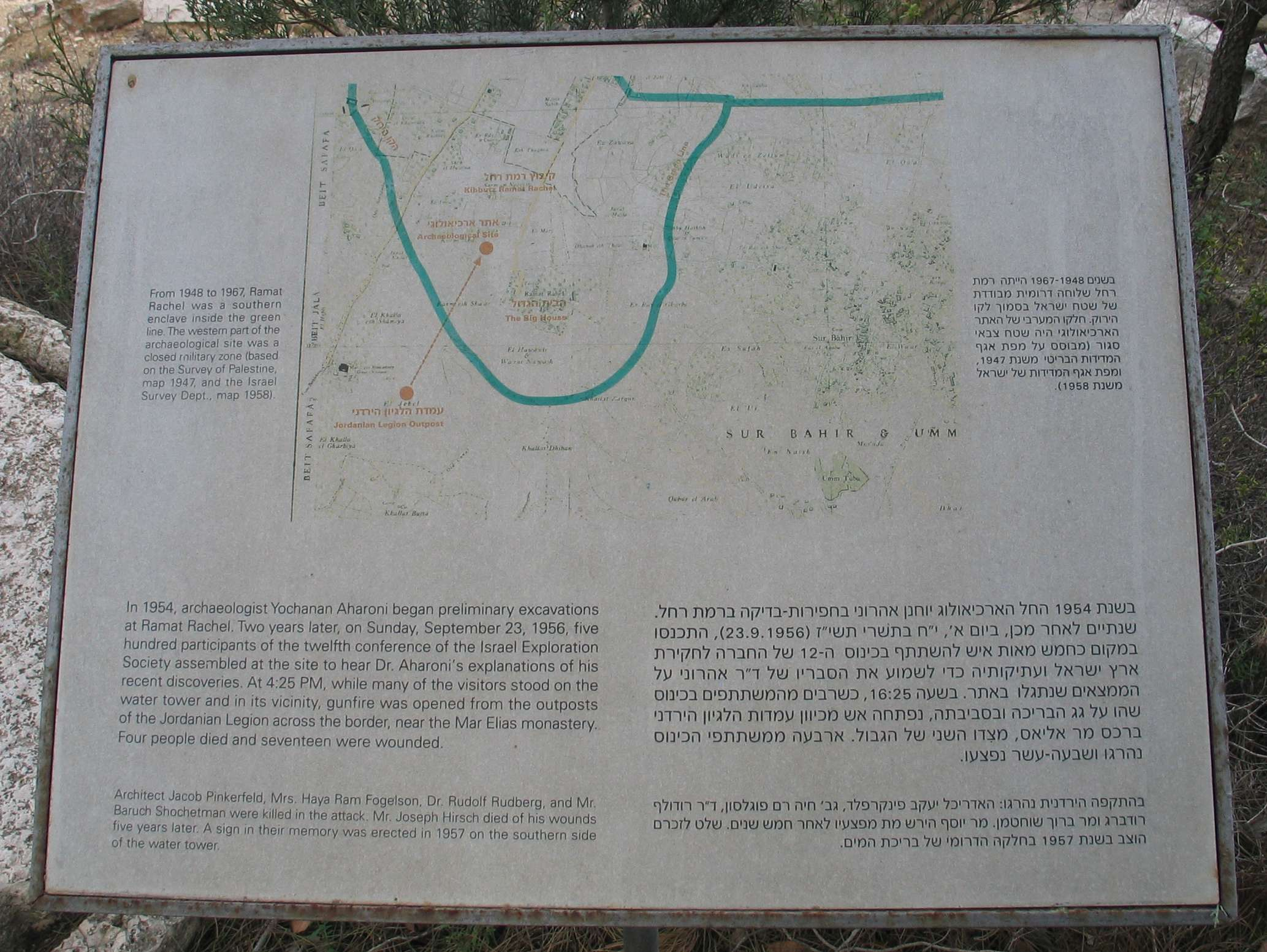 Archaelogical garden in kibutz Ramat Rachel, Israel.